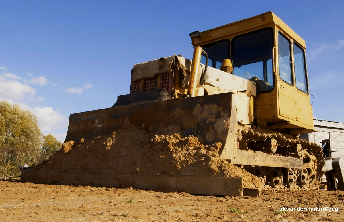 Tractor DT-75M "Kazakhstan"